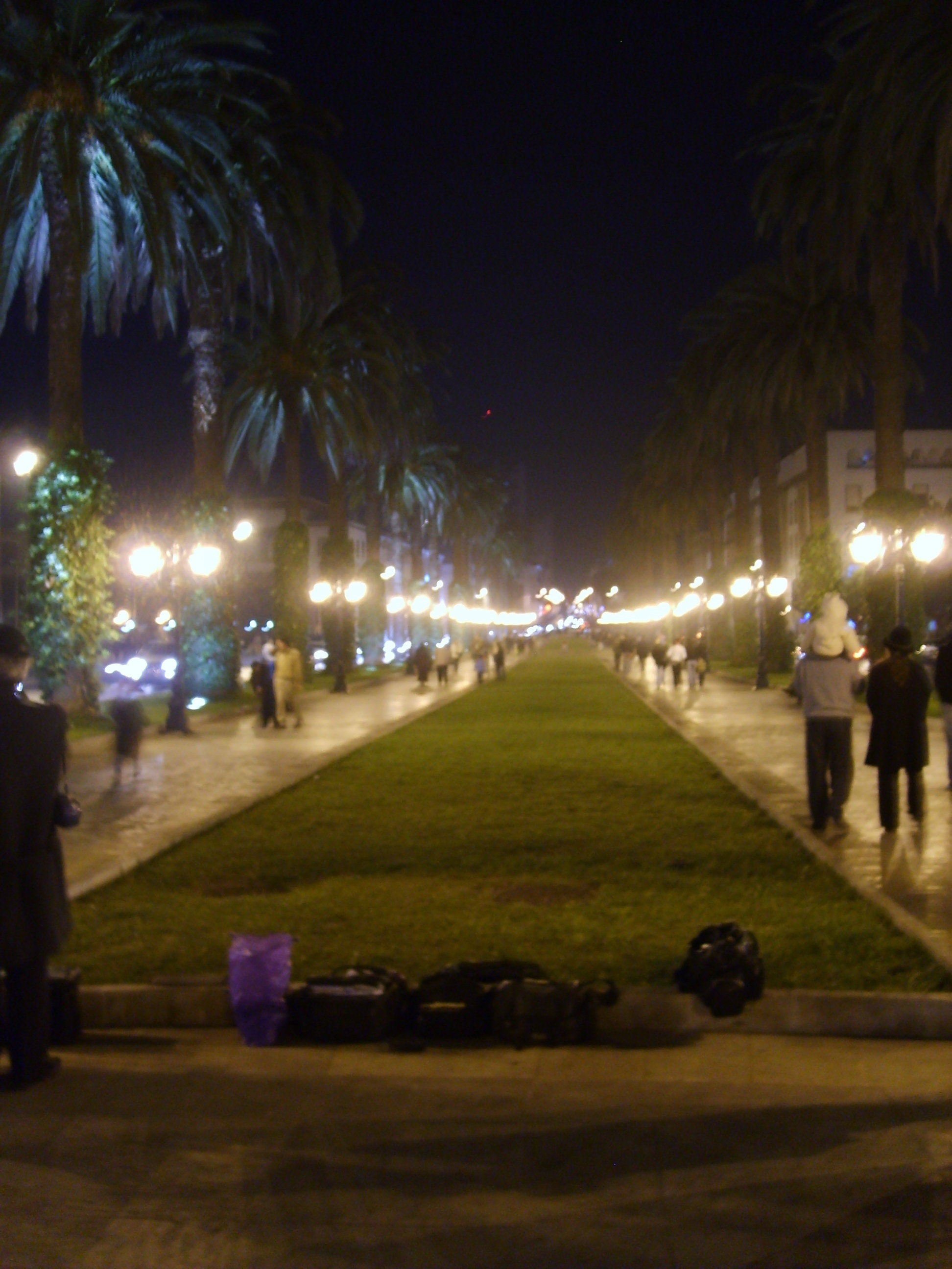 Mohammed V Avenue by night